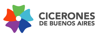 Logo for Cicerones de Buenos Aires